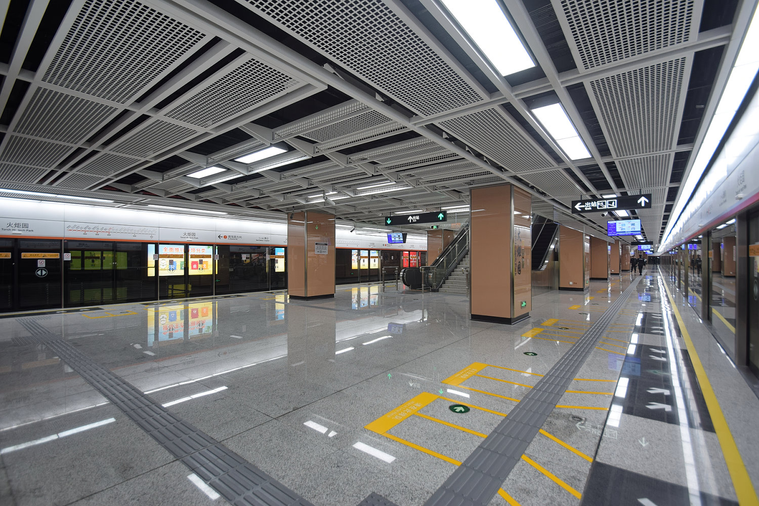 Line 1 Platform of Torch Hi-tech Park Station, Xiamen Metro